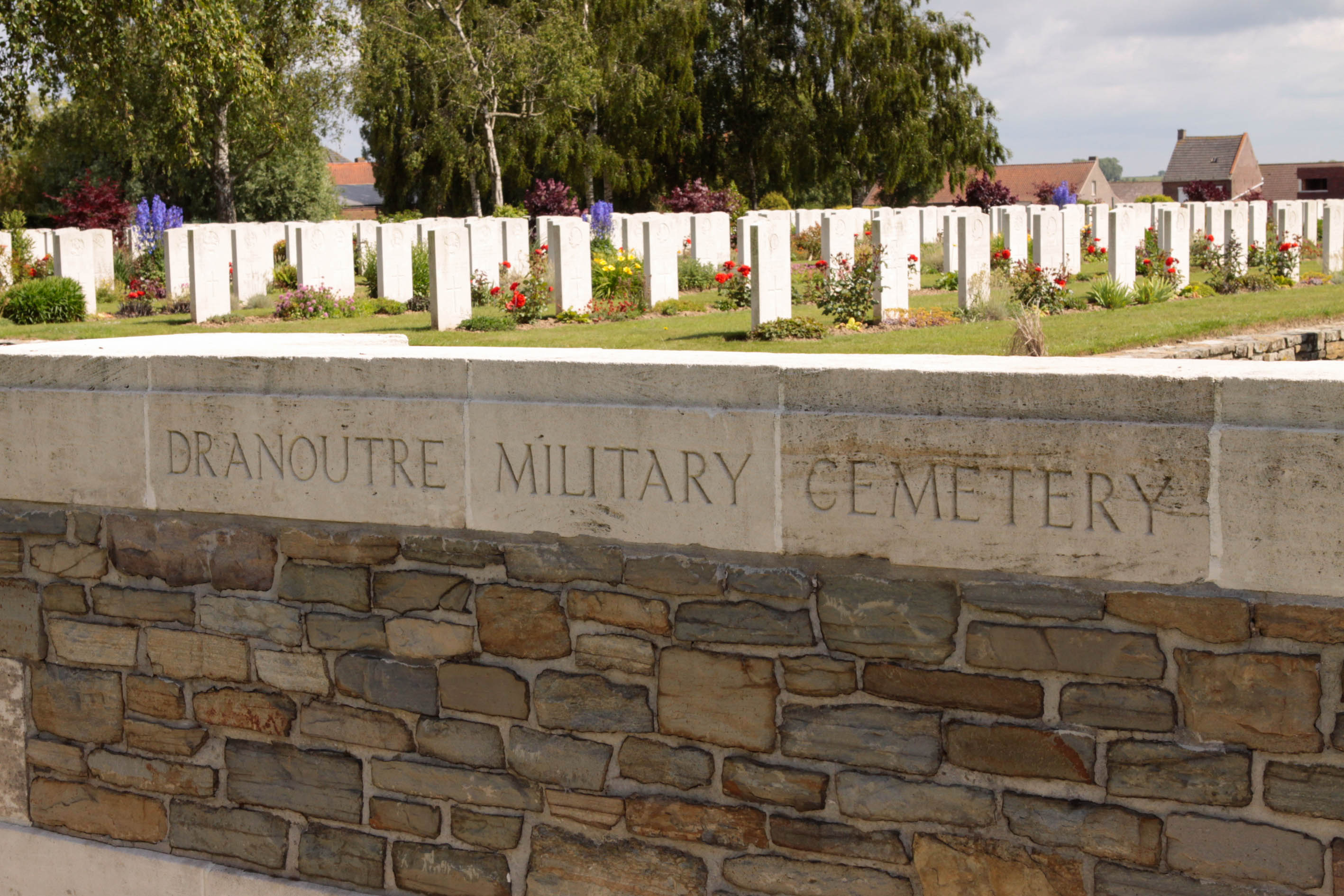 Dranoutre Military Cemetery